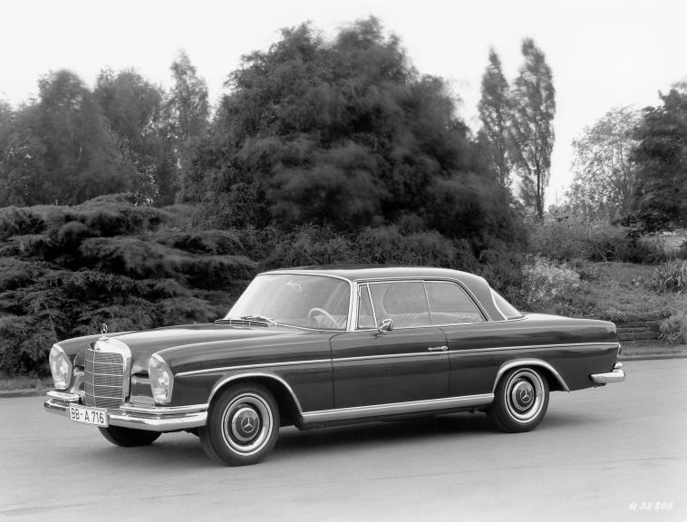 300 SE W112 Coupé